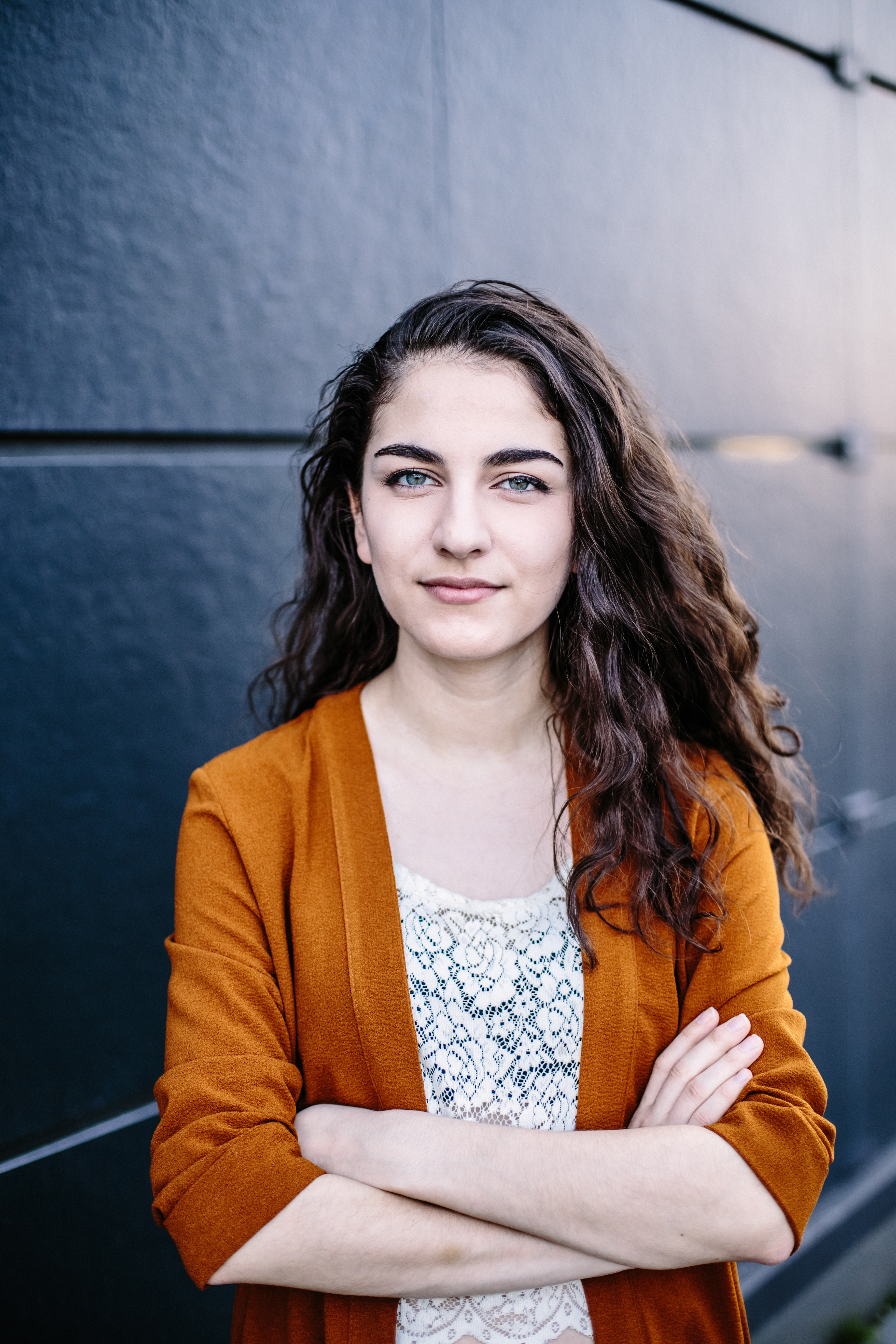 Romina Pourmokhtari In 2019